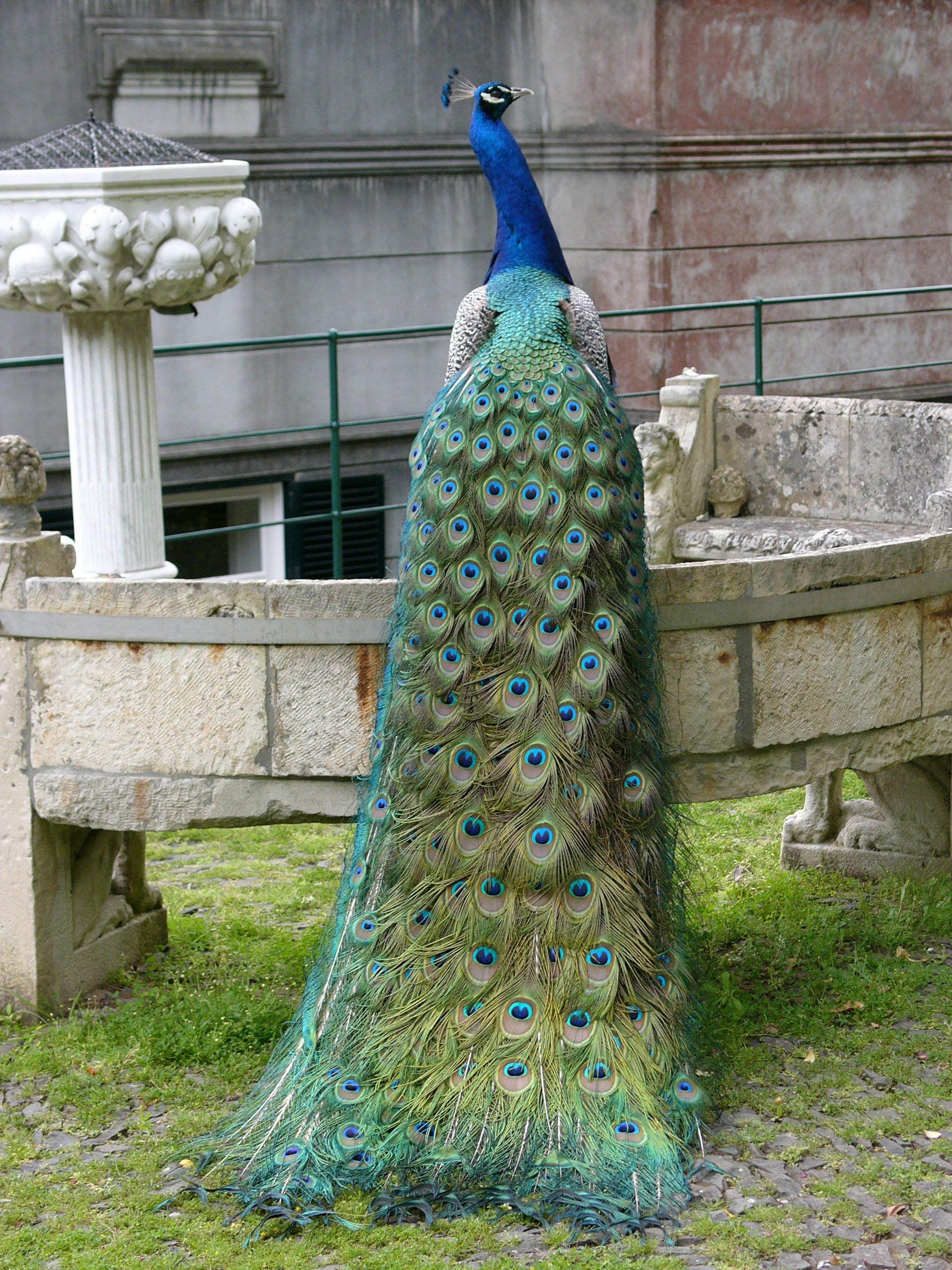 Peacock in Botanical Garden, Madeira